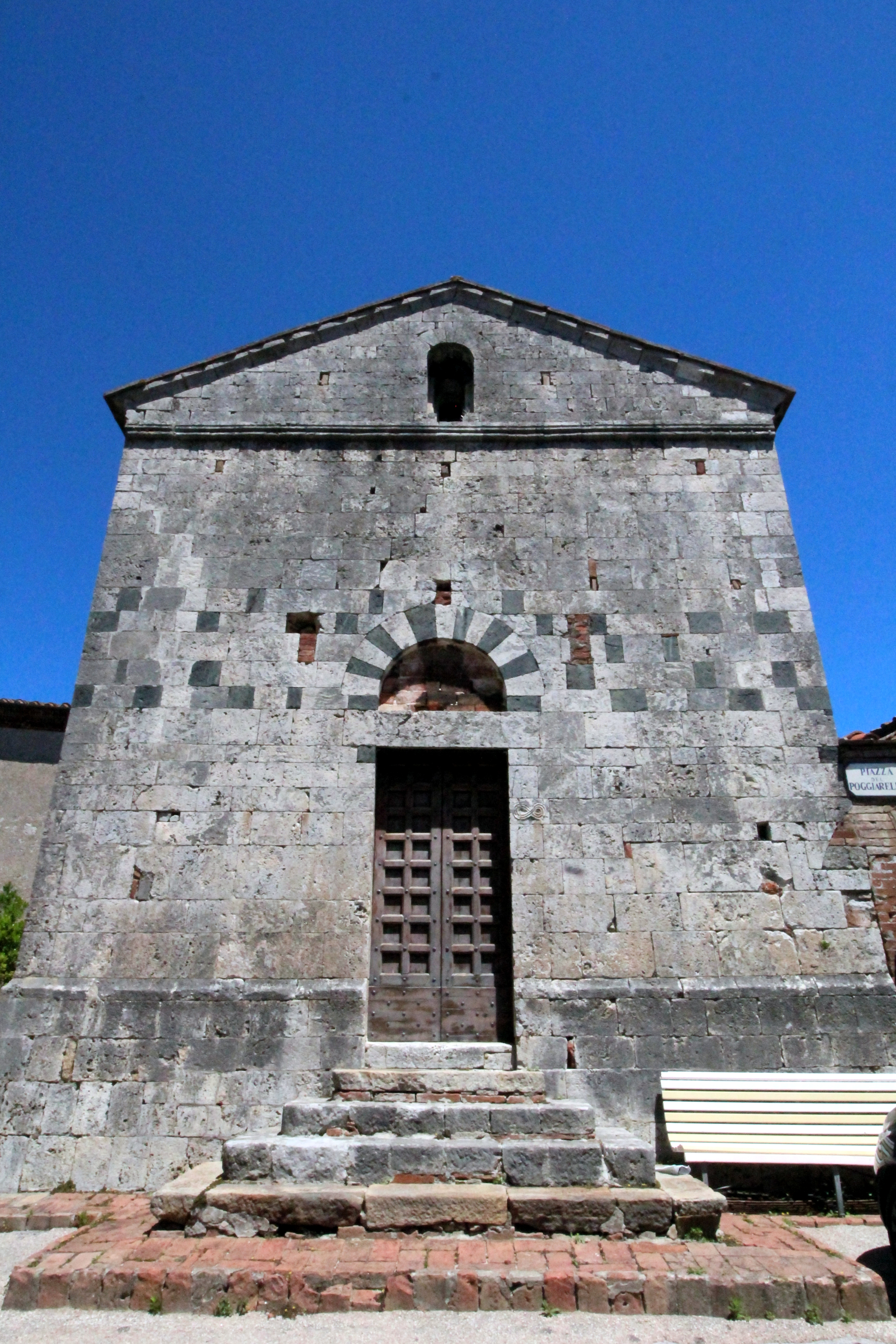 Church of San Lorenzo in San Lorenzo a Merse, hamlet of Monticiano, Province of Siena, Tuscany, Italy